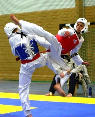 WTF Taekwondo Sparring Match, 2008. Mazyar Sajjadi performing a reverse on his opponent.